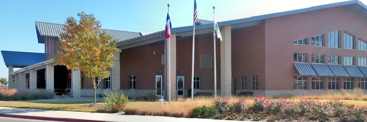 Photograph of the Community Activity Center in Flower Mound, Texas.